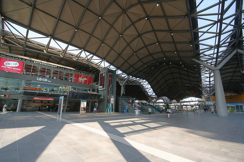 Main concourse of Southern Cross Station, Melbourne.